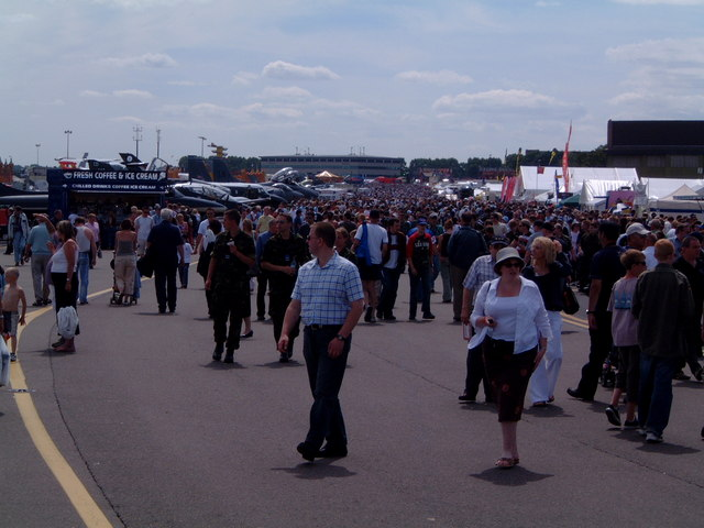 Waddington airshow Crowd scene at Waddington 2002